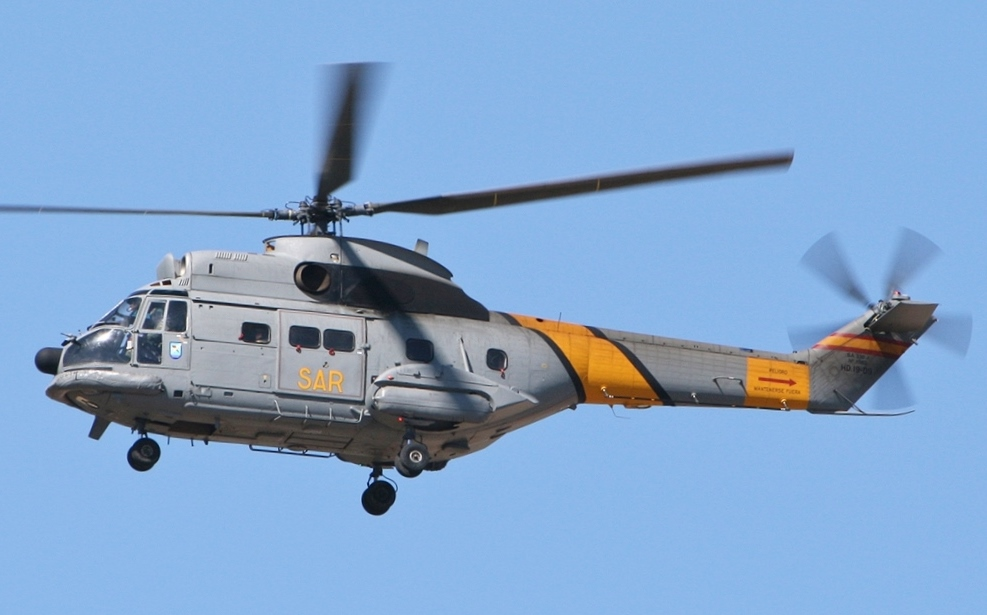 Aerospatiale SA 330J Puma of the Spanish Air Force